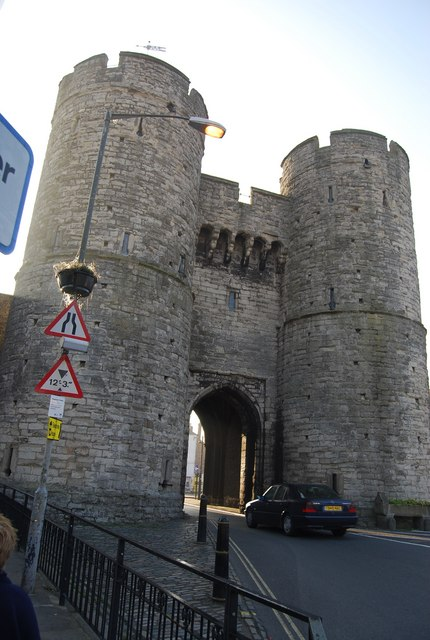 Westgate, Canterbury The best remaining gate in Canterbury.